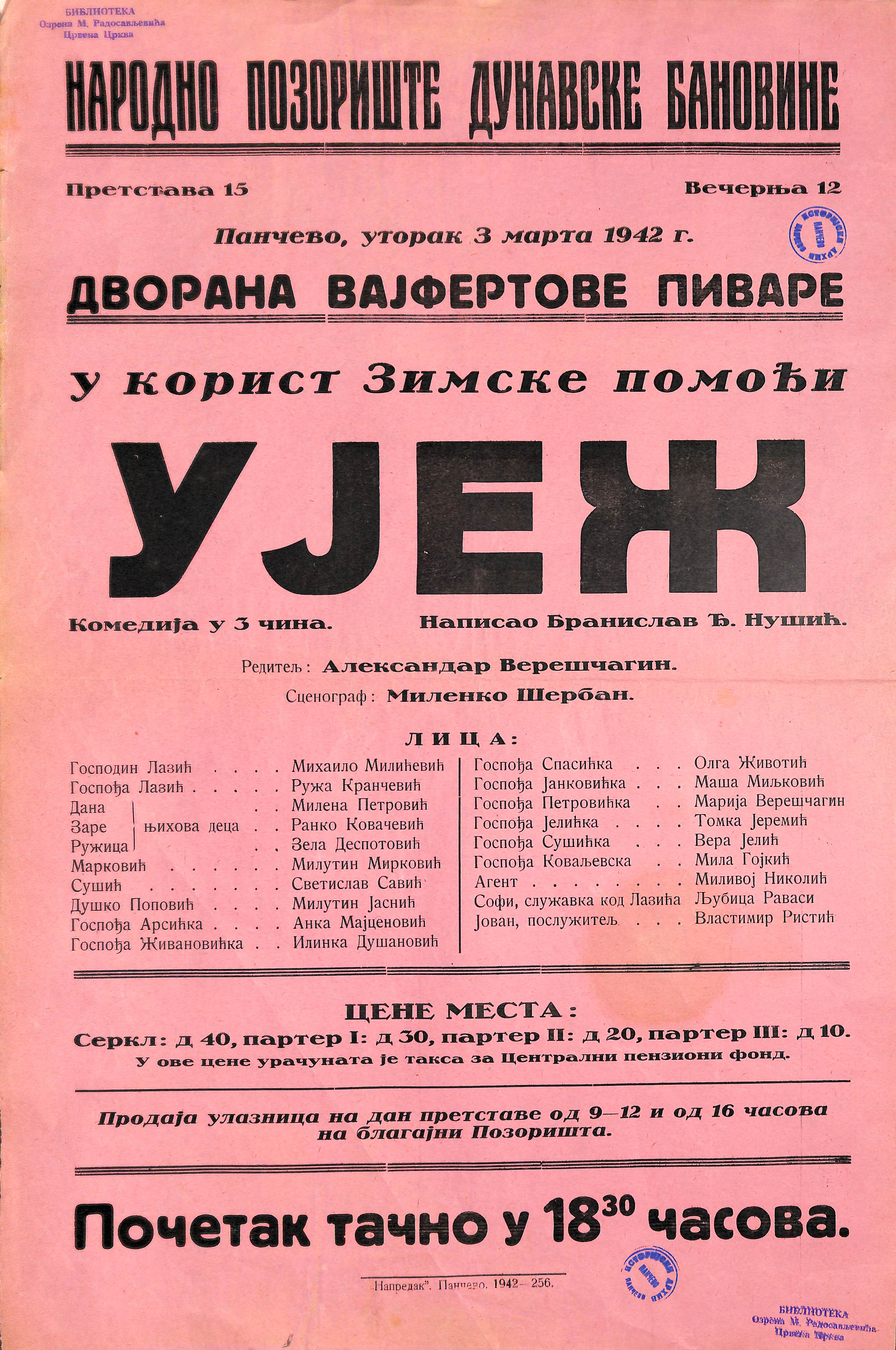 Poster for the performance of Branislav Nušić in Pančevo from 1942